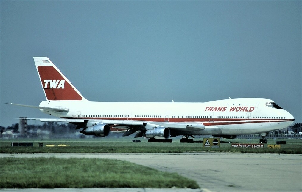 Trans World Airlines,Boeing 747-100 N93119 at London Heathrow Airport. This aircraft was manufactured in 1971. About 14 years and 2 months after this photo was taken, on 17 July 1996, a short circuit occurred as a result of damaged wiring (a common problem on older 747s [this 747 was 25 years old at the time of the collision]) allowing current to run into the centre wing fuel tank, producing a spark which caused the contents of the fuel tank to explode. The explosion caused the aircraft to disintegrate and crash into the Atlantic ocean, killing all 230 passengers and crew on board). The aircraft was operating TWA flight 800 from New York to Rome via Paris at the time, and this was the 3rd worst aviation disaster to take place on US soil.